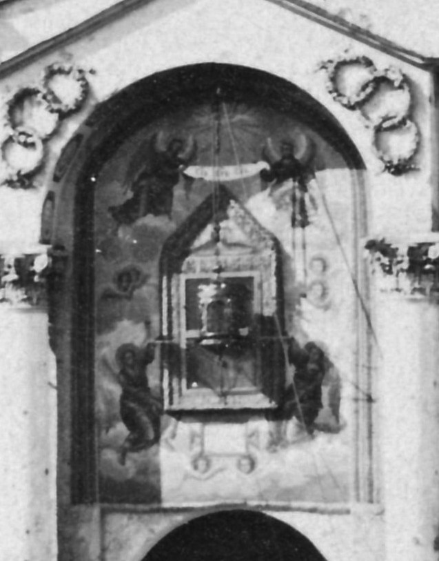 Frescoes above the Spassky gate. Before 1867.